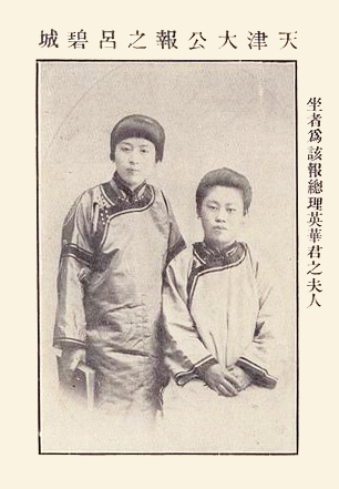 Lü Bicheng in Takungpao in Tianjin